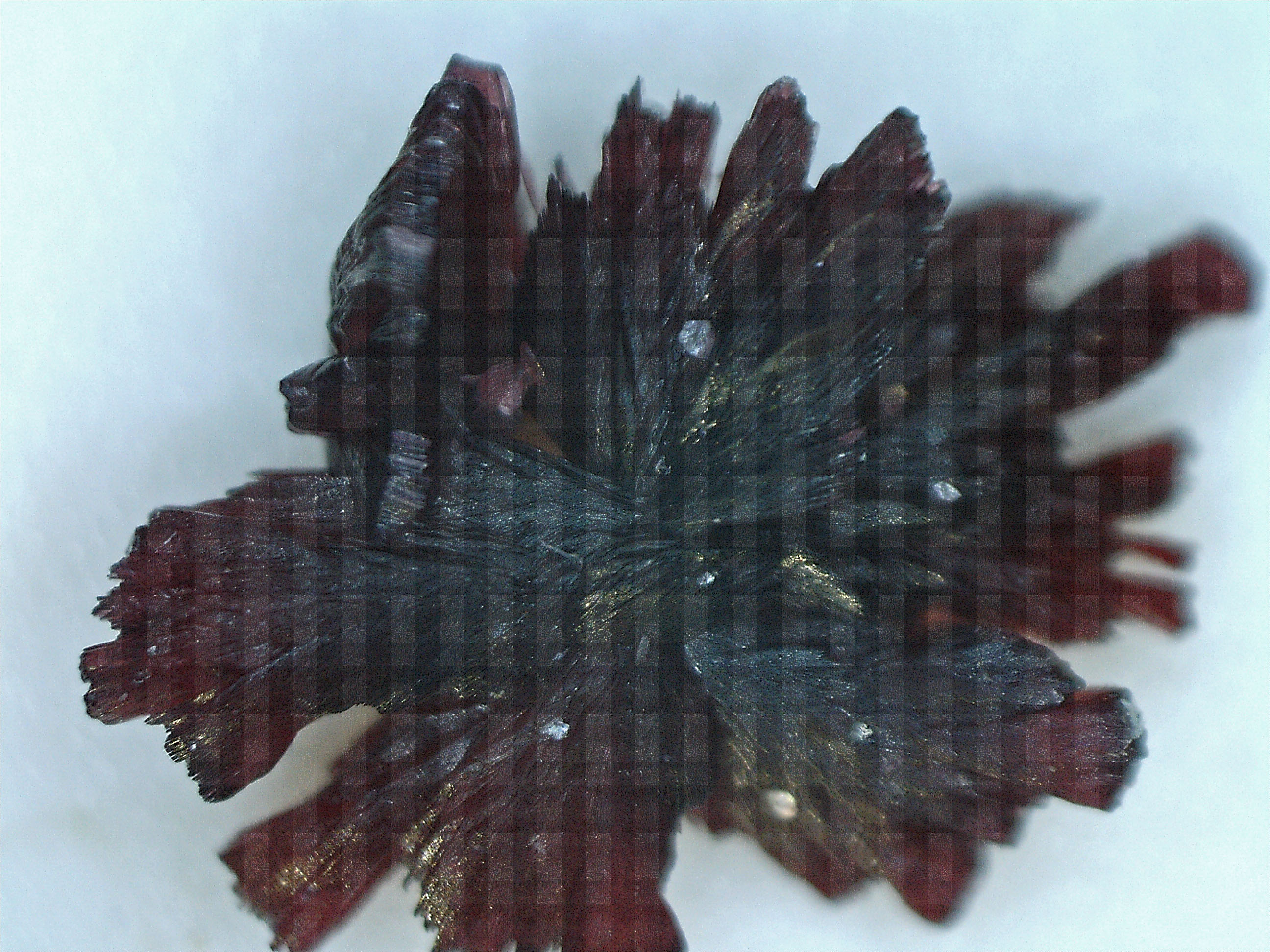 Potassium bitartrate, also known as potassium hydrogen tartrate, with formula KC4H5O6, byproduct of winemaking or here found in red grape juice